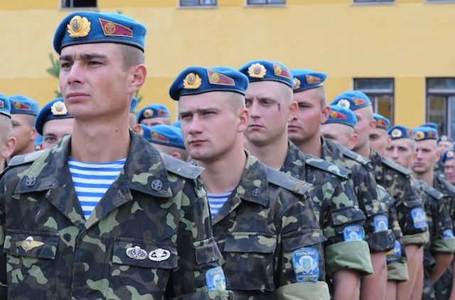 Soldiers from the Ukrainian Armed Forces 95th Airborne Brigade stand in formation during the Rapid Trident 2012 opening ceremony held at the International Peacekeeping and Security Center in Yavoriv, Ukraine, July 16. Rapid Trident supports interoperability among Ukraine, the United States, NATO and Partnership for Peace member nations. Approximately 1,400 personnel from 16 different nations are participating in the exercise which will consist of multi-national academic course and situational and field training exercises. (Photo by U.S. Army Staff Sgt. Brooks Fletcher, U.S. Army Europe Public Affairs)